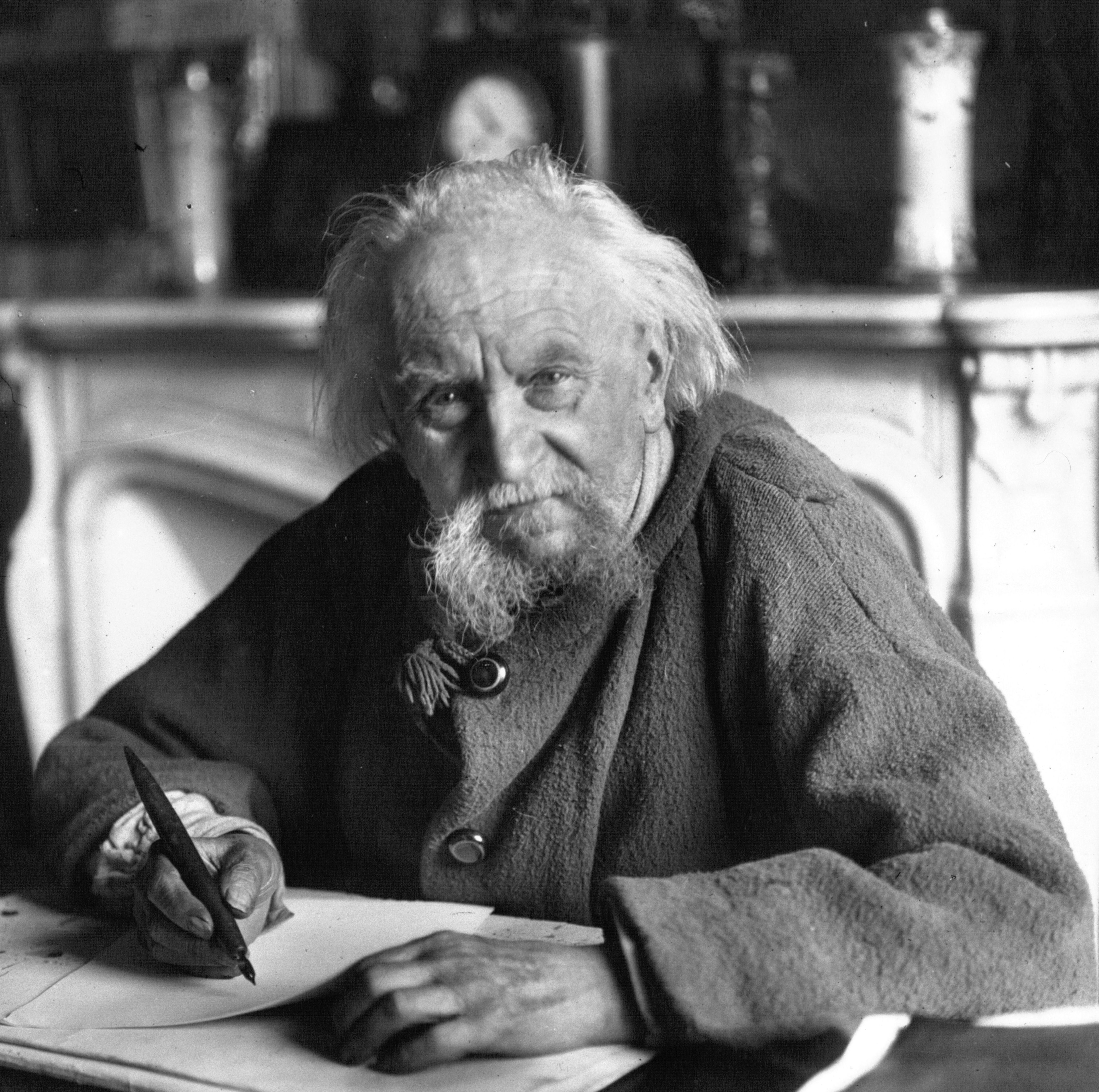 French writer and playwright Émile Bergerat (1845-1923).